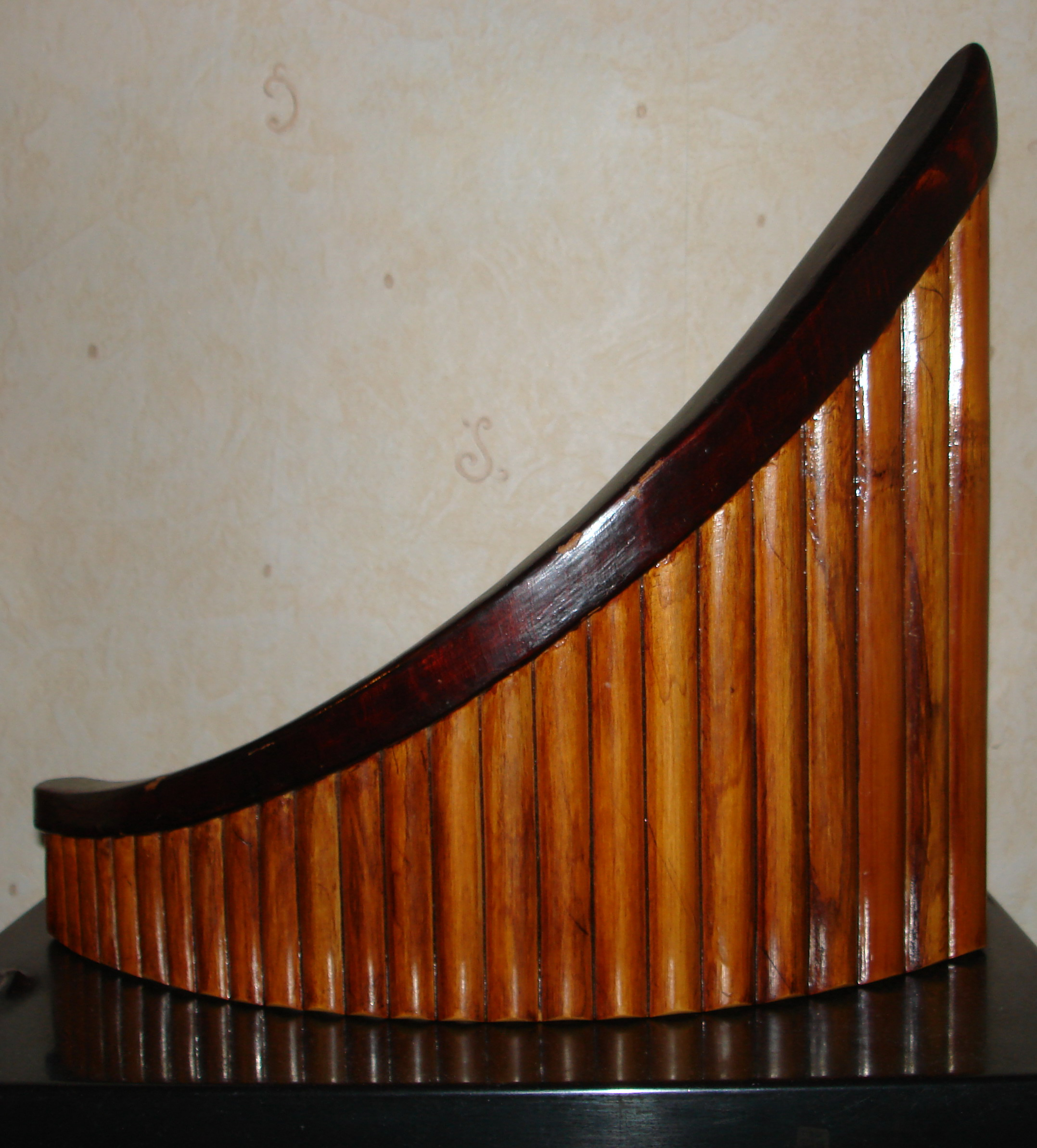 Nai